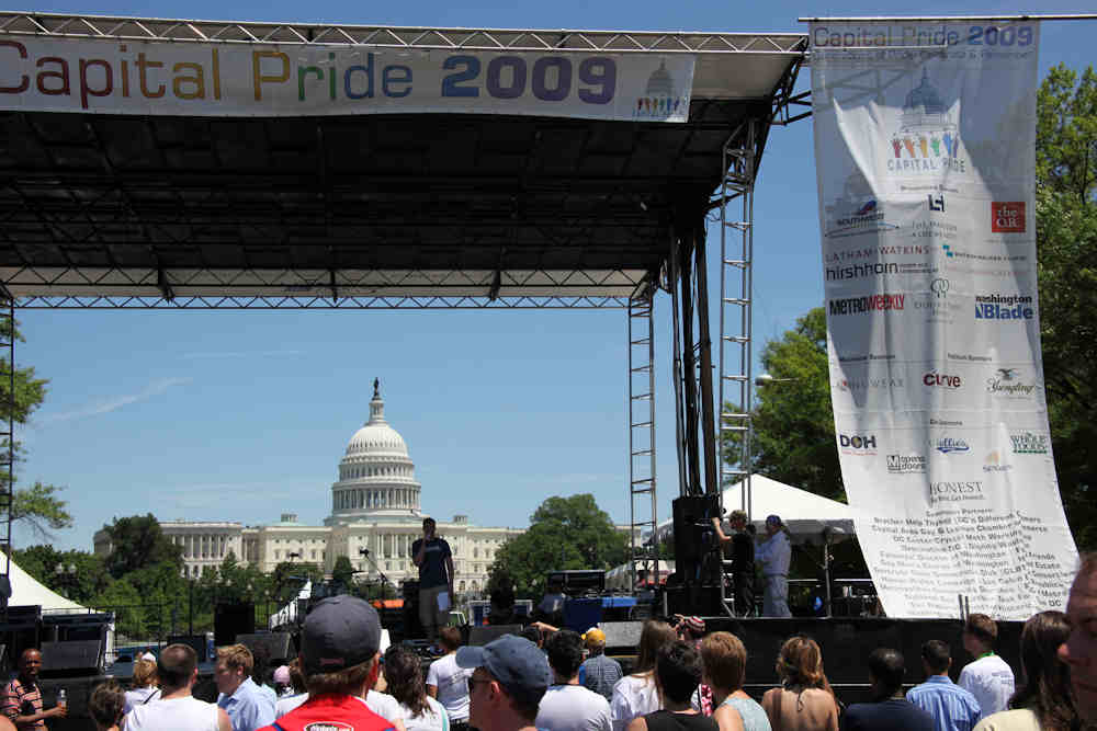 Main stage at the Capital Pride street festival on Pennsylvania Avenue NW in Washington, D.C., on June 14, 2009. The dome of the U.S. Capitol building can be seen in the background.